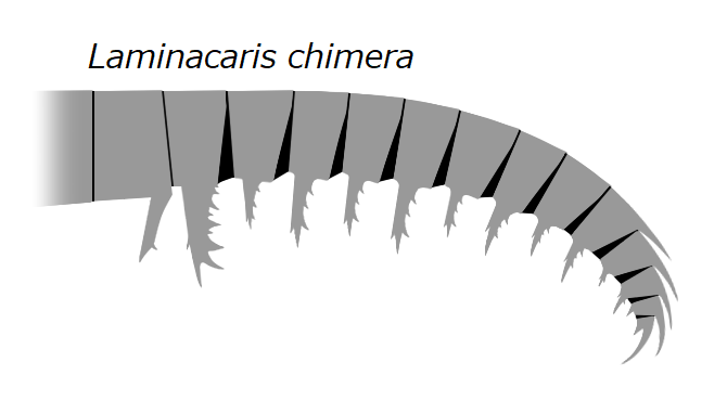 Frontal appendage of the radiodont genus Laminacaris, showing by L. chimera.